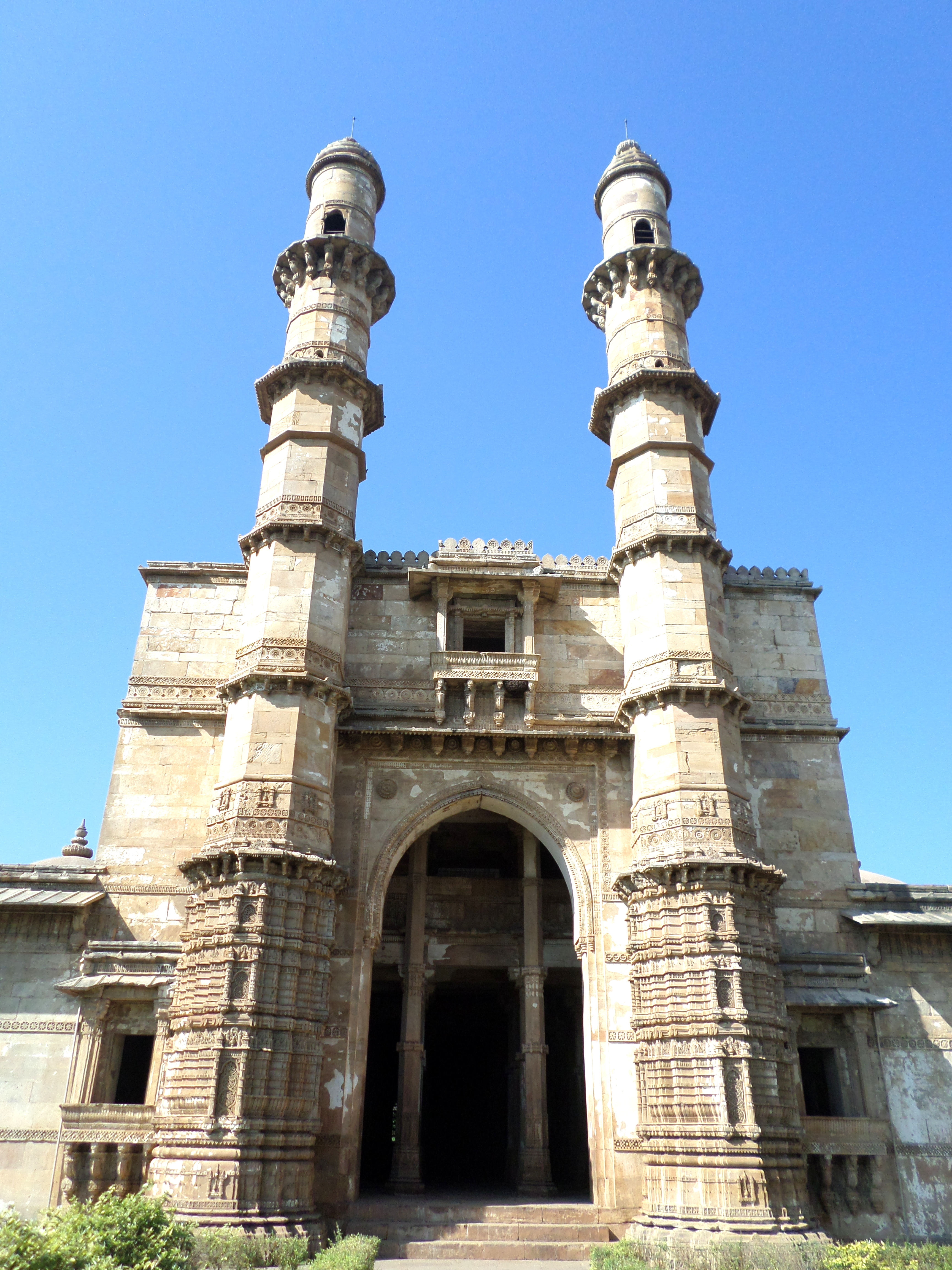 Minarets of Jami Masjid, Champaner Archaeological Park